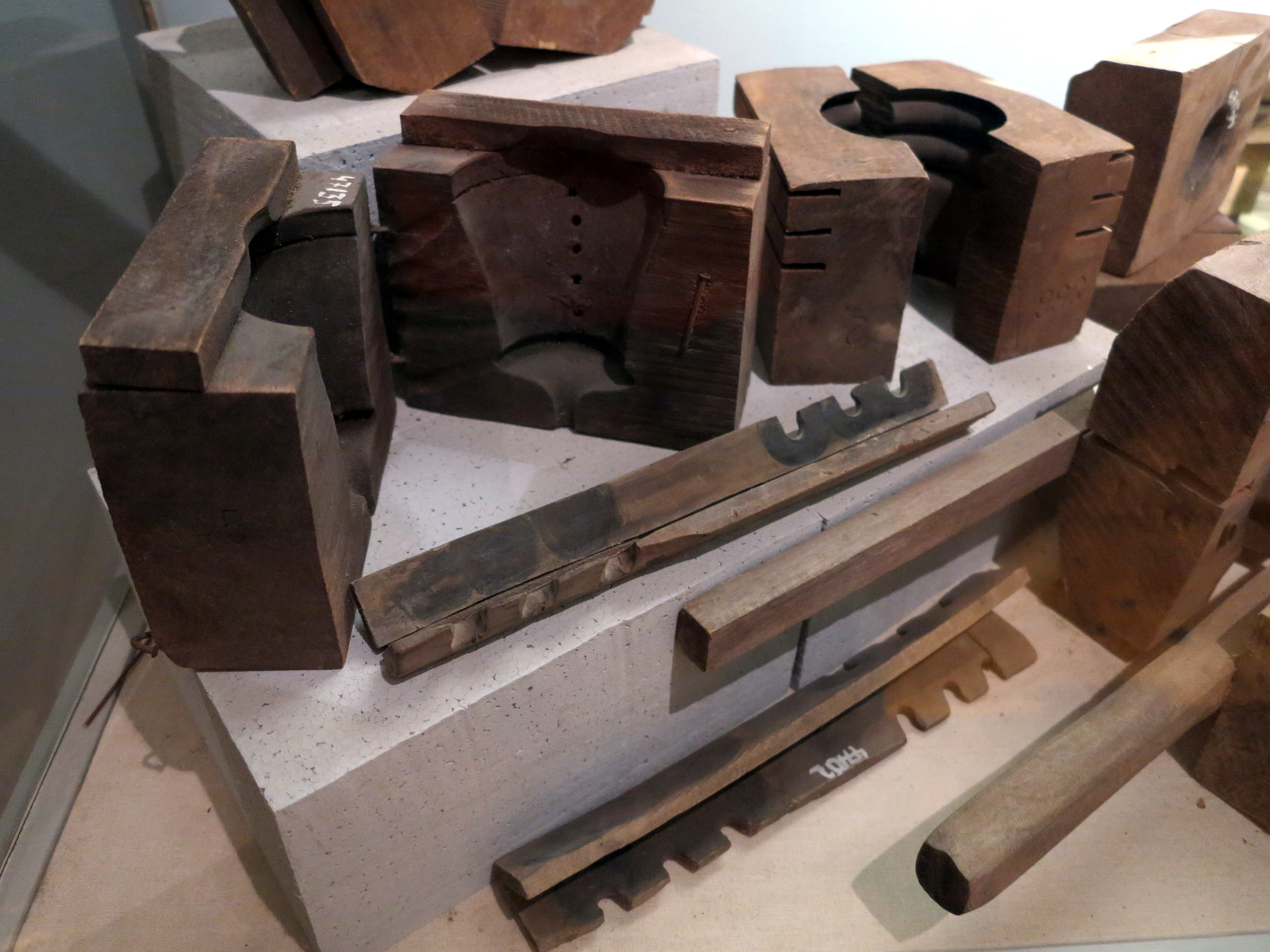 Wood molds, forms for glass production forest, presumably from the village glassblower Tscherniheim, a place of Forest glass production from 1621 to 1879 in the municipality Hermagor-Pressegger See in Carinthia / Austria / EU. Exhibits at the Museum of Folk Culture in Spittal an der Drau.